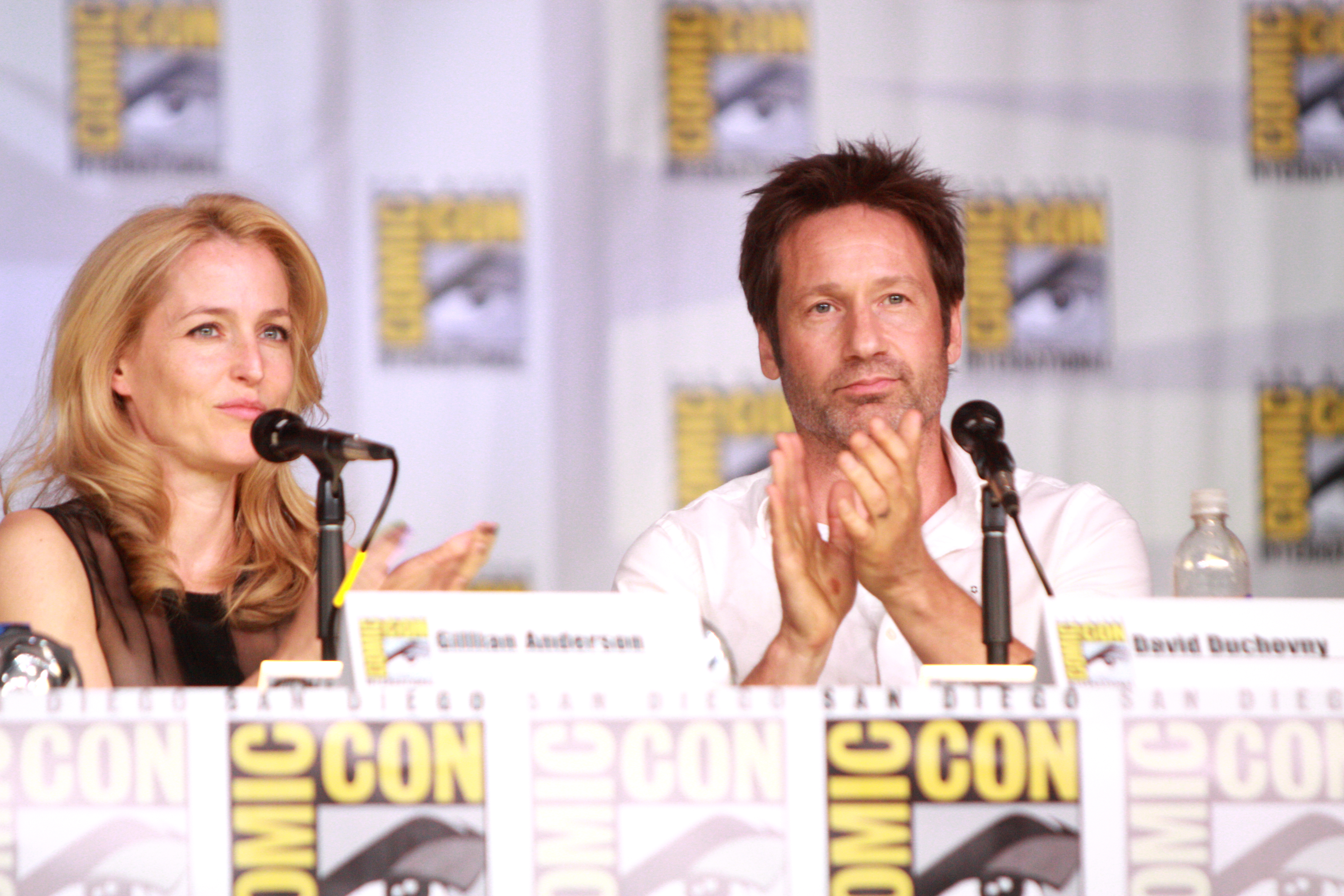 Gillian Anderson and David Duchovny speaking at the 2013 San Diego Comic Con International, for "The X-Files" 20th Anniversary panel, at the San Diego Convention Center in San Diego, California.